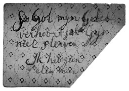 Foundling card. The text roughly translates to "If god listens to my prayers, Gijs will not die. I have no more food." The torn corner of the card means that the mother intends to pick up her child when she's able to take care of him again.